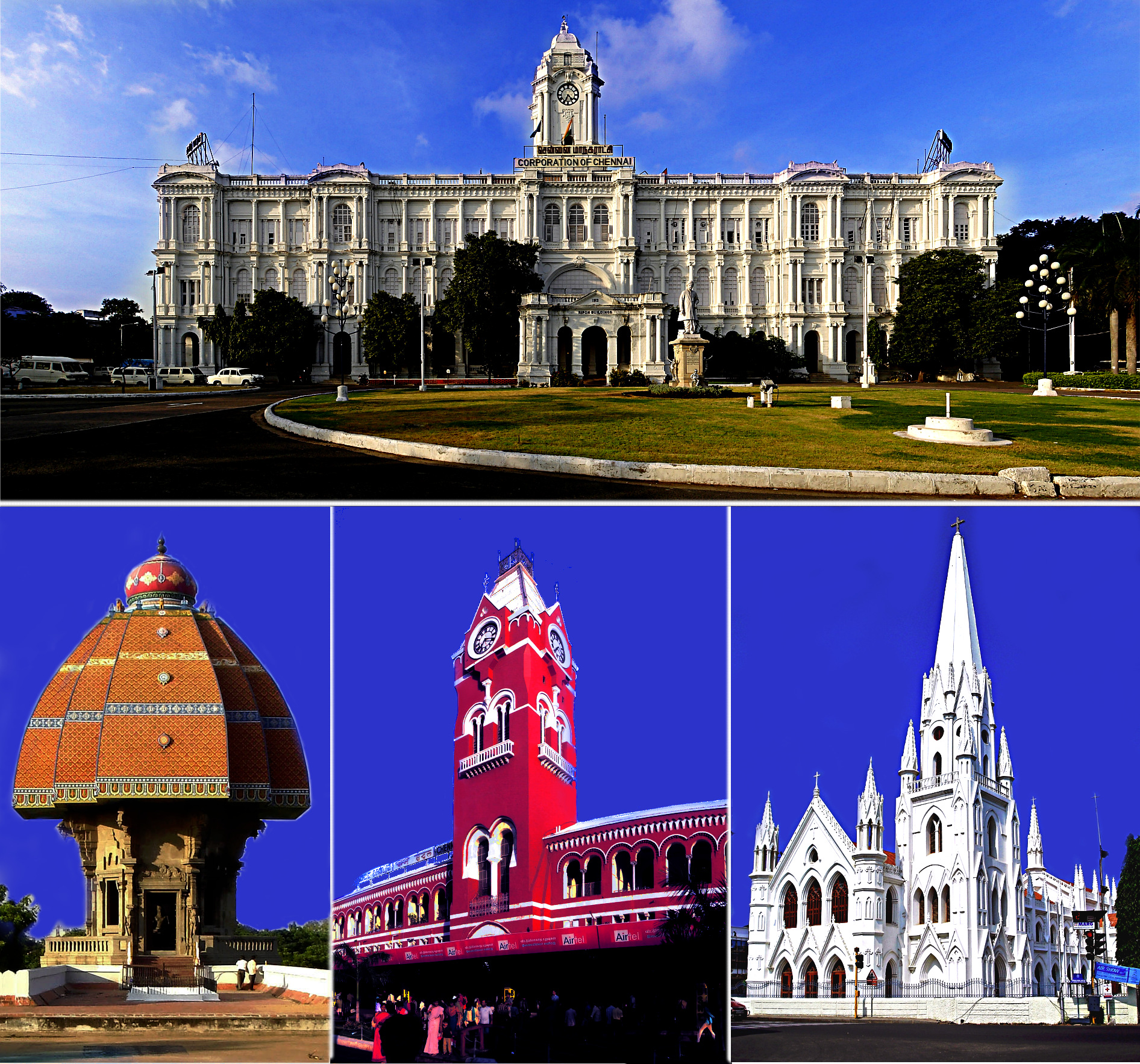 Sources: Chennai Central: Marina Beach: Kapaleeshwarar temple: San Thome Basilica: Bharatnatyam: File:Meenakshi Payal bharatanatyam.jpg Bharatnatyam Performance by Sneha Chakradhar at India International Centerभरतनाट्यम